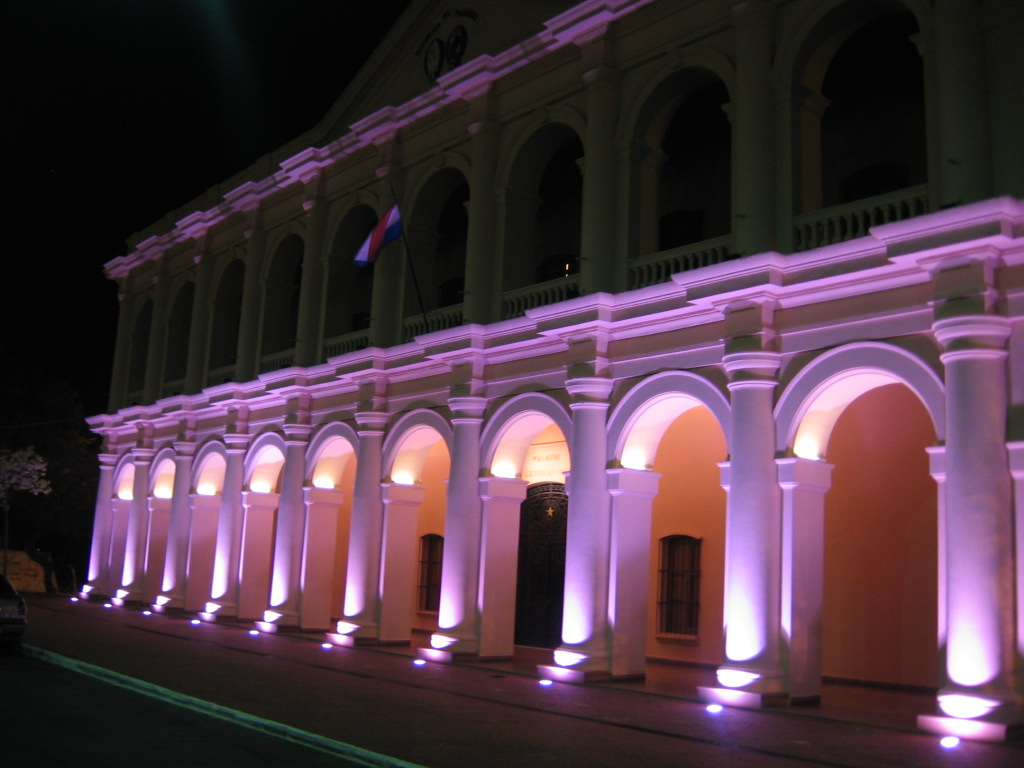 Cultural Center of the Republic.